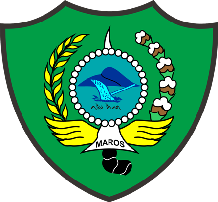 Logo Maros